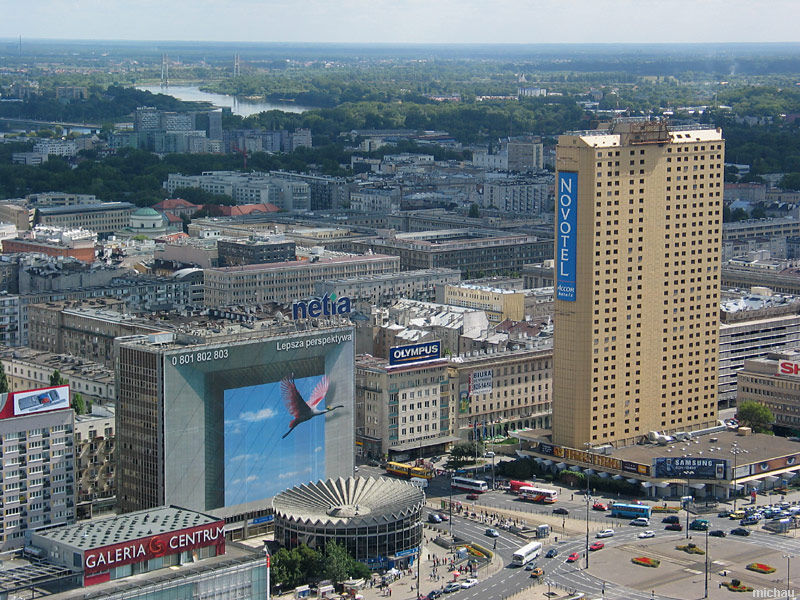 View from the Palace of Culture and Science to the sputh-east. You can see: Dmowski Roundabout, Rotunda (round building), Novotel (former Forum hotel - big, yellow building), behind buildings - Vistula river with Siekierkowki Bridge.